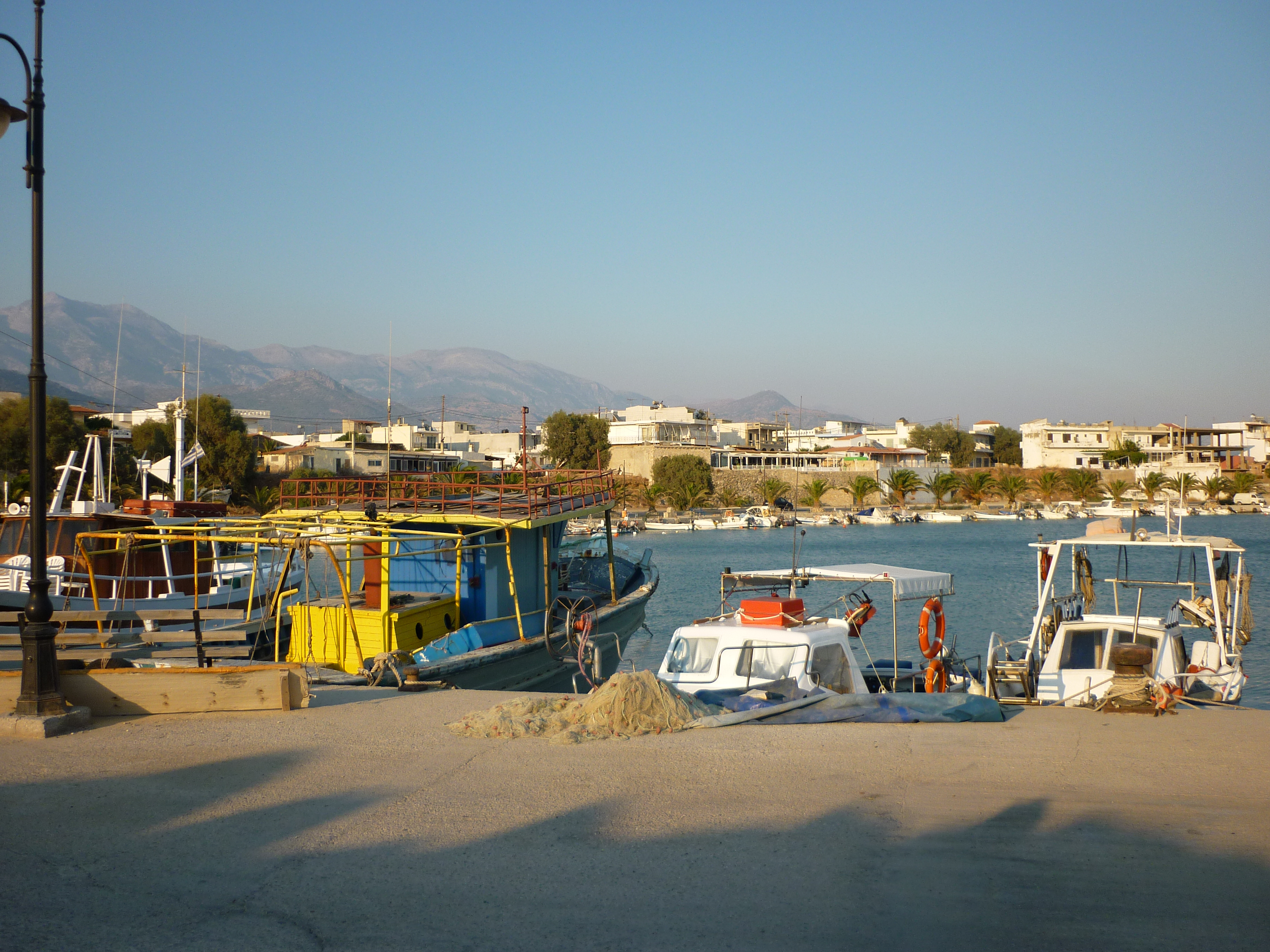 Harbour of Kokkinos Pirgos, Tymbaki, Crete.